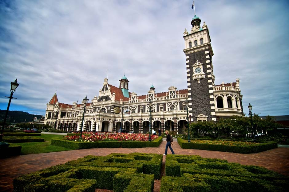 Dunedin railway station